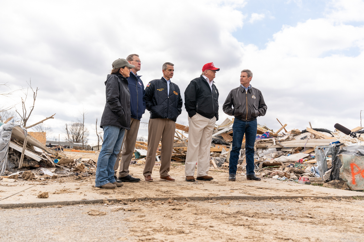 President Donald J. Trump, joined by Tennessee Governor Bill Lee, right, and local officials, tours a tornado ravaged neighborhood in Cookeville, Tenn., Friday, March 6, 2020, where a tornado struck early on Tuesday March 3rd killing 18 of the 24 people killed in central Tennessee. (Official White House Photo by Shealah Craighead)